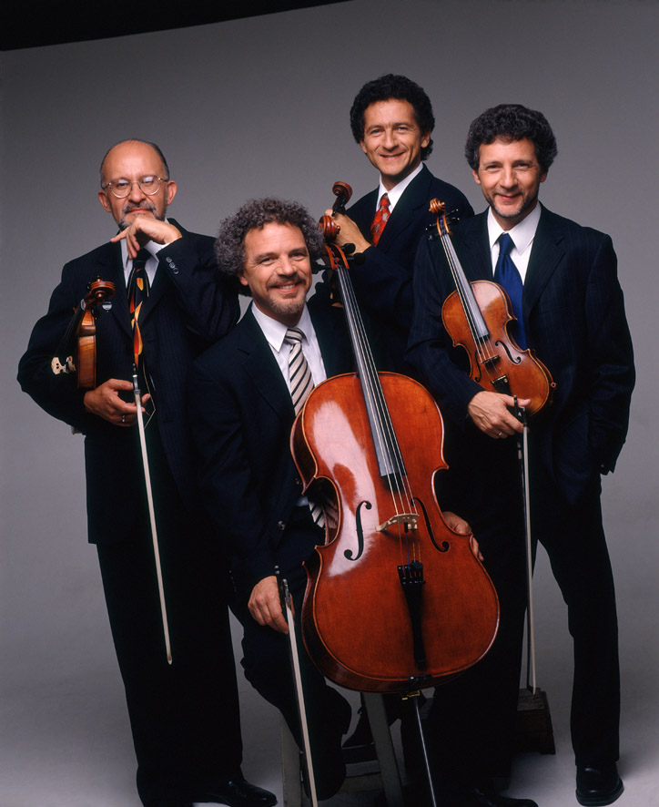 Cuarteto Latinoamericano. Saul Bitrán violin 1, Arón Bitrán violin 2, Javier Montiel viola, Alvaro Bitrán cello.